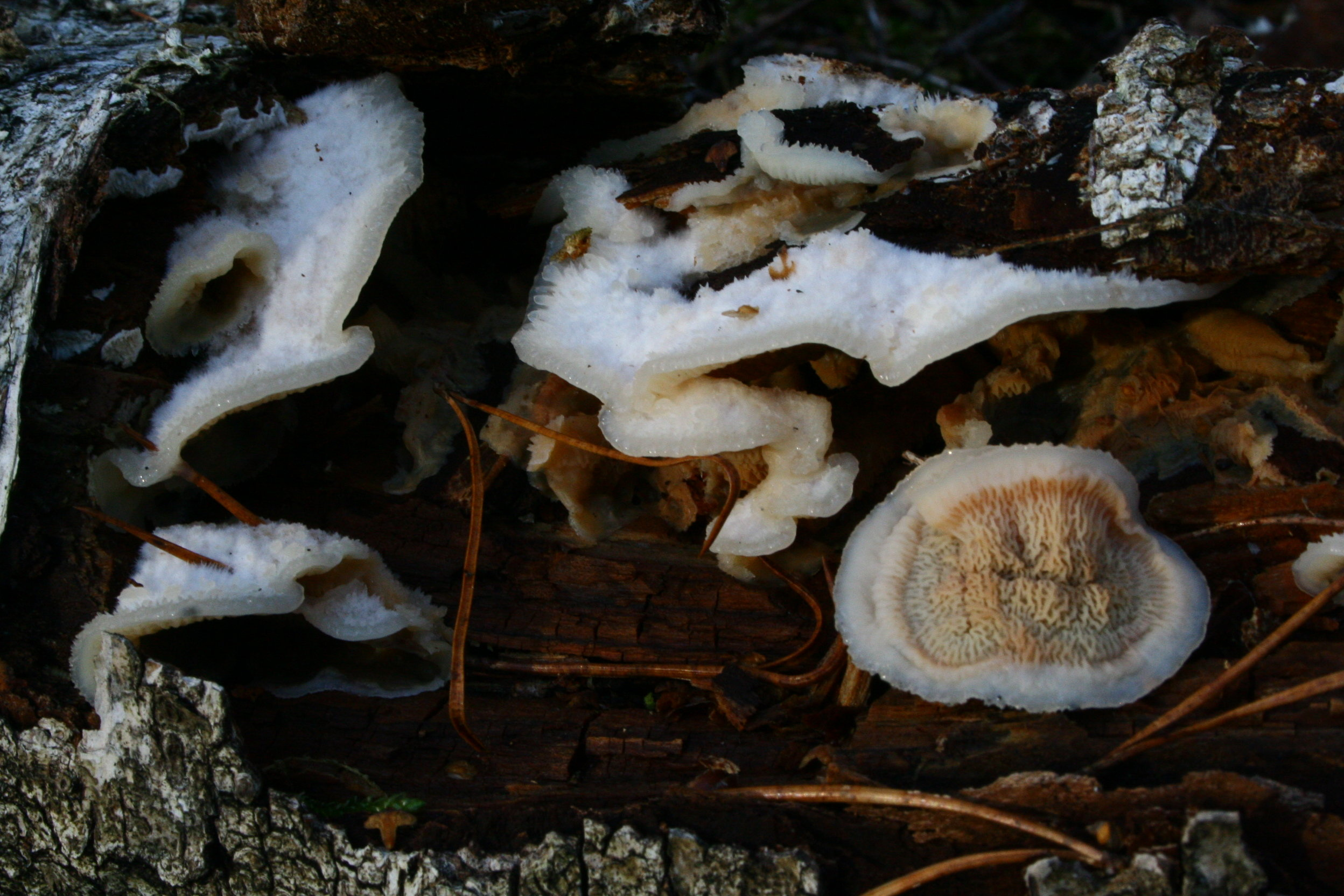 Merulius tremellosus in la Forêt des Trois Pignons near Fontainebleau, France.